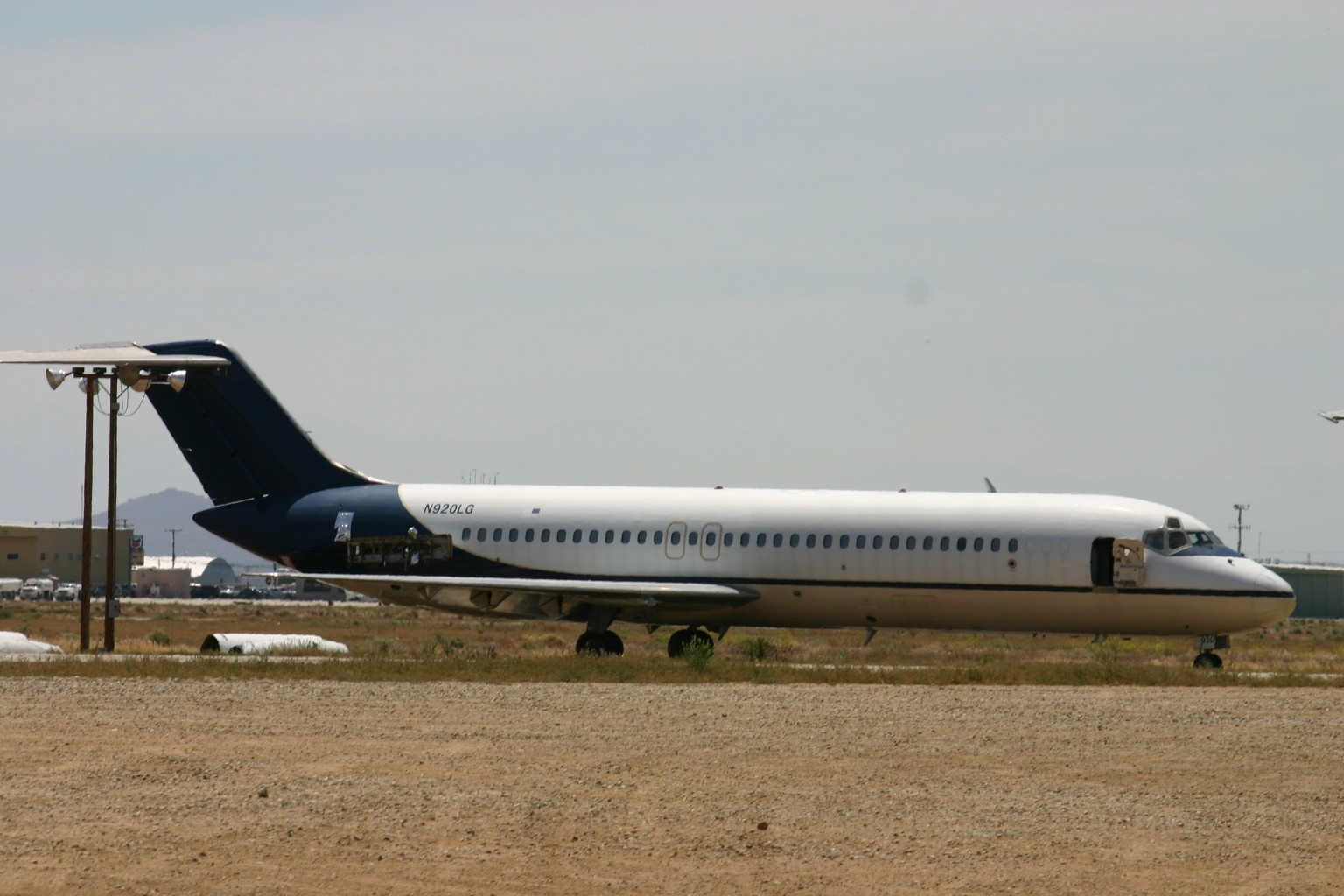 At Mojave